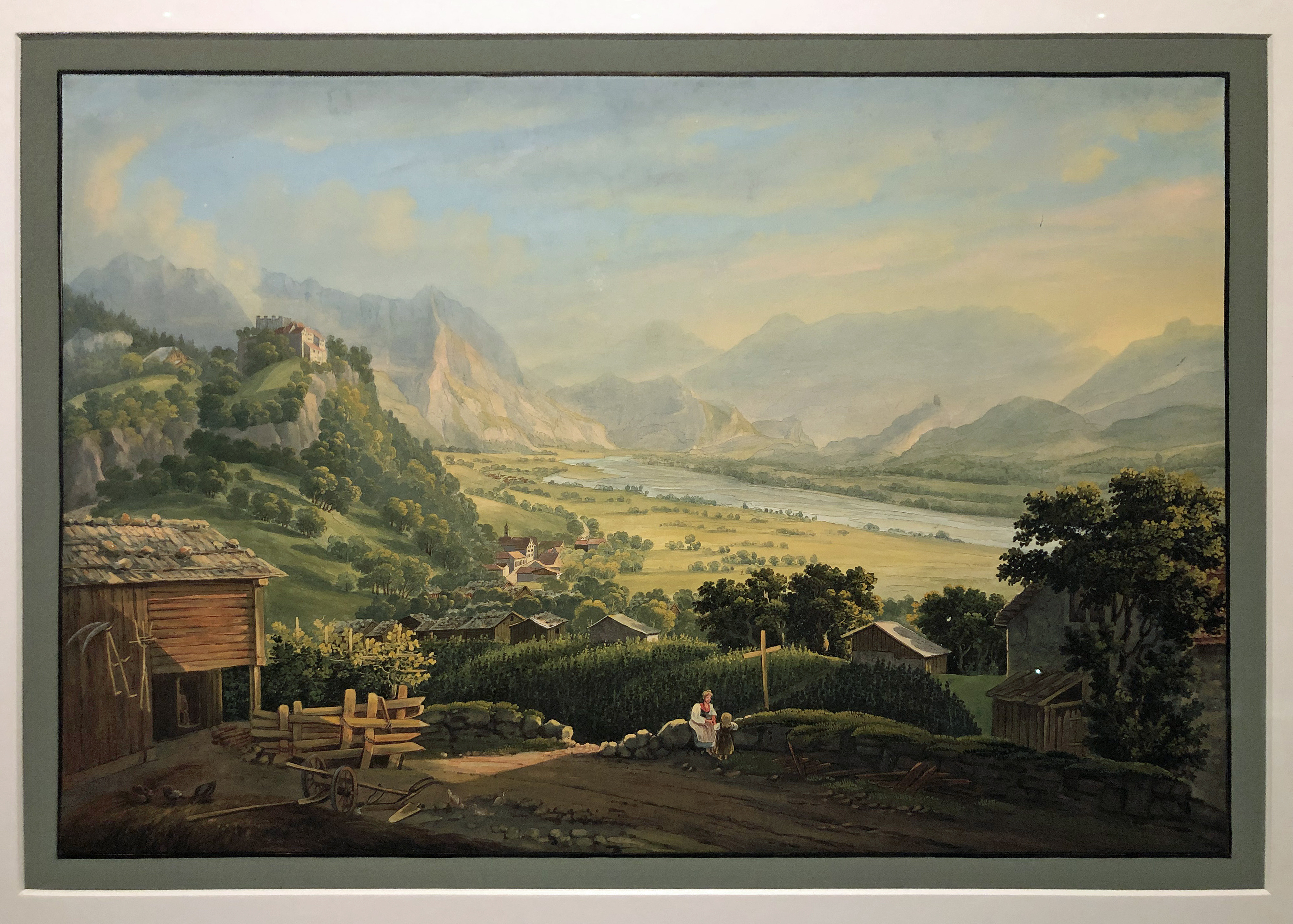 A gouache paintings by Johann Ludwig Bleuler from the Rhine voyage series showing Vaduz and its castle hanging in the Schatzkammer of the Liechtensteiner Landesmuseum in Vaduz